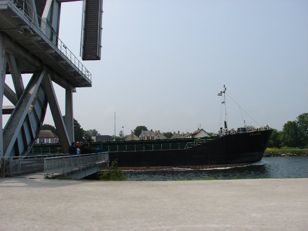 ship passing by Pegasus bridge on the Caen Channel. Navio no Canal de Caen, na Ponte Pegasus